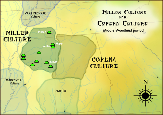 A map showing the Middle Woodland period Hopewell tradition Miller culture and Copena culture and some of their sites.